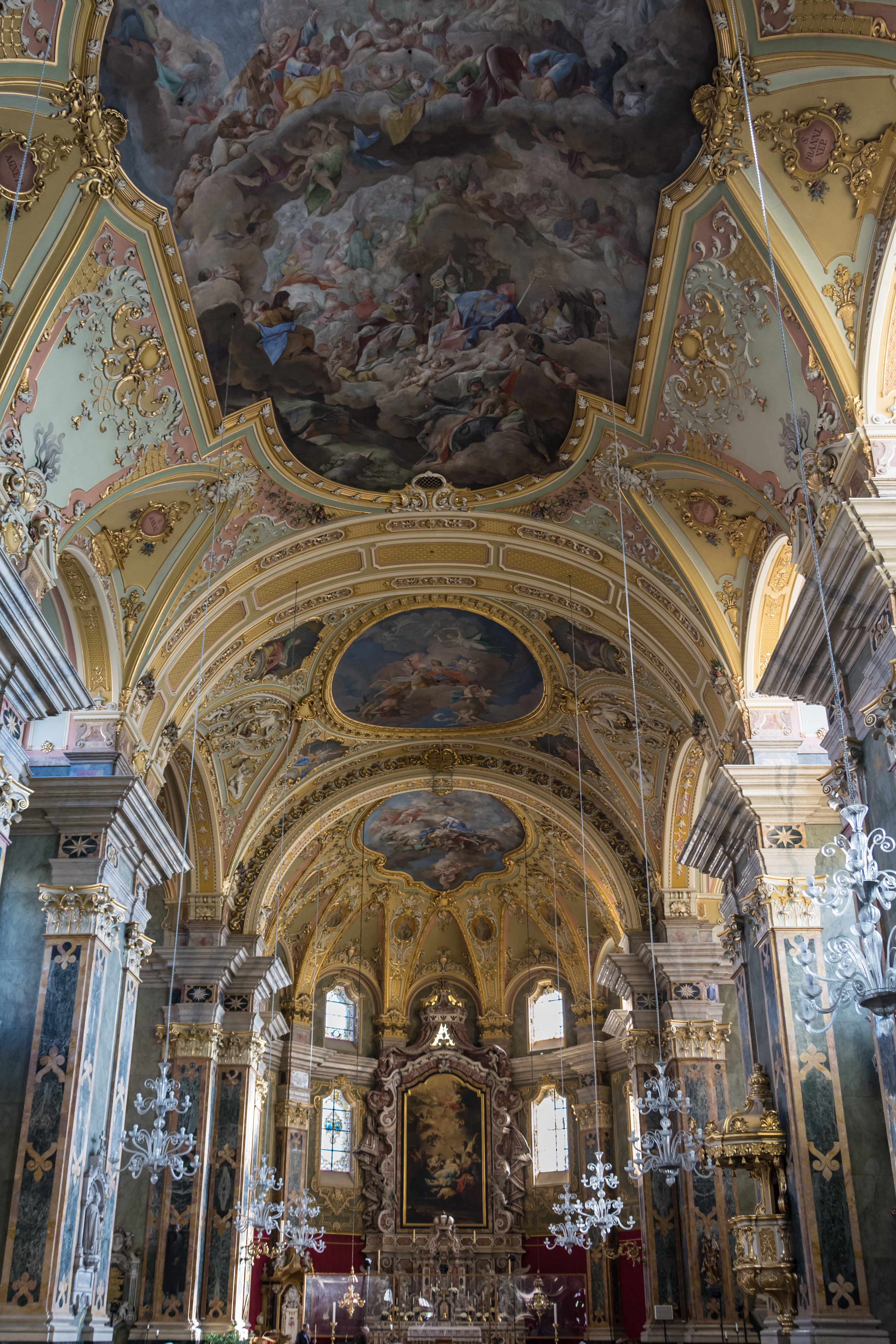 Interior of Brixen Cathedral, South Tyrol